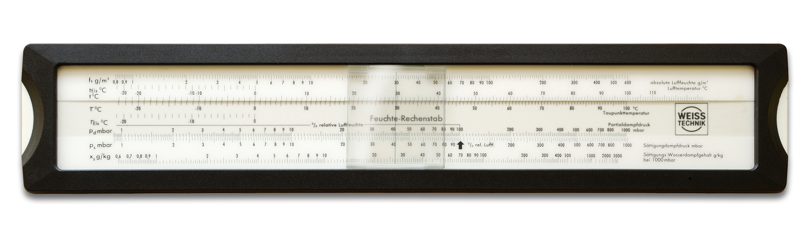 Humidity slide rule for conversion of miscellaneous humidity parameters